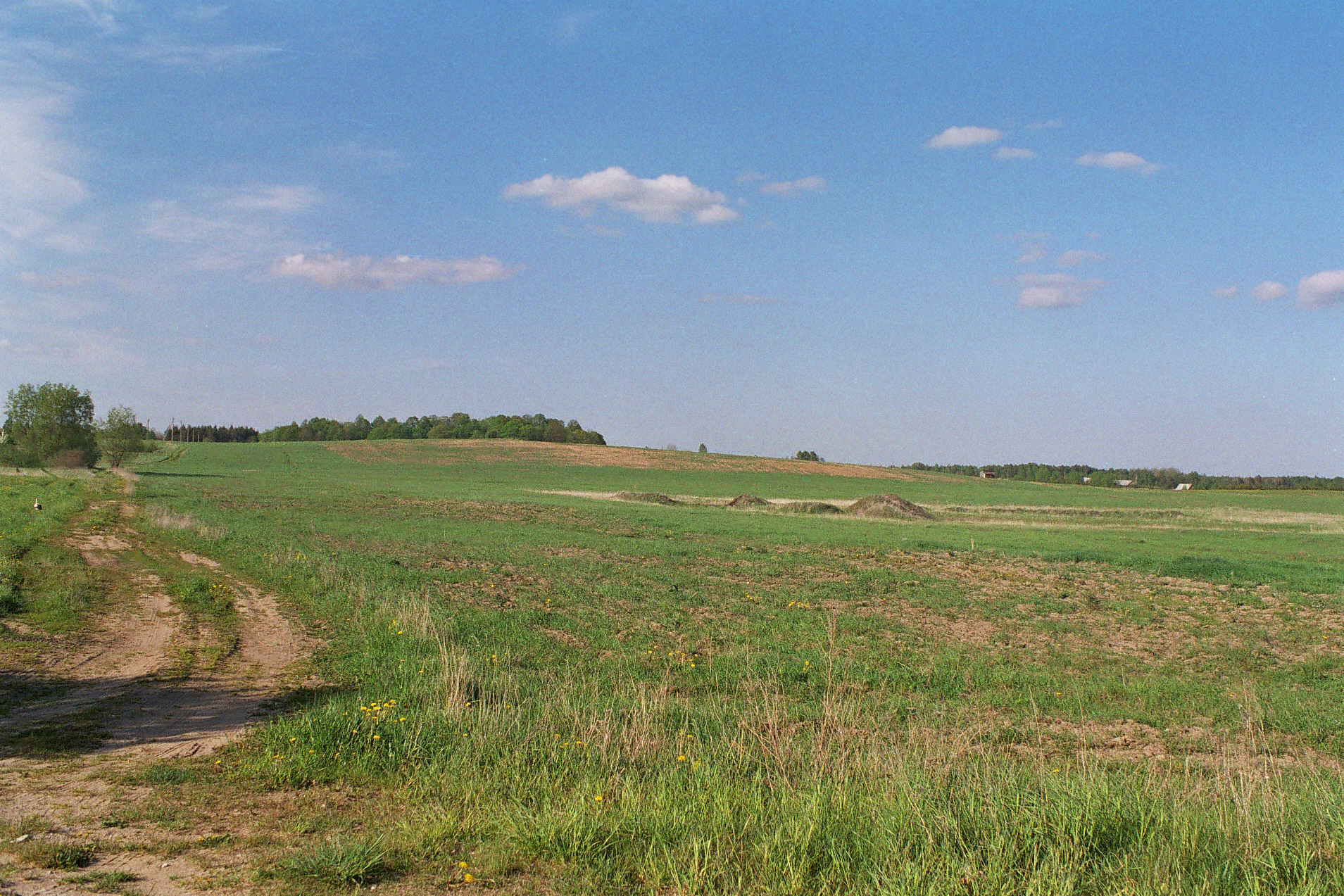 Mažučiai, Kretinga district, Lithuania